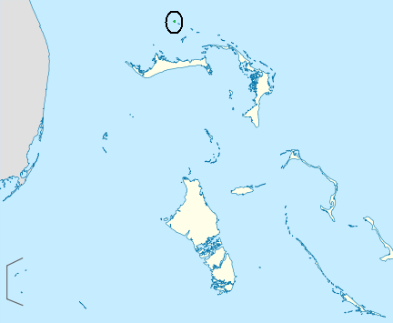 Location map of the Bahamas Equirectangular projection, N/S stretching 105 %. Geographic limits of the map: * N: 27.5° N * S: 20.7° N * W: 80.7° W * E: 70.8° W